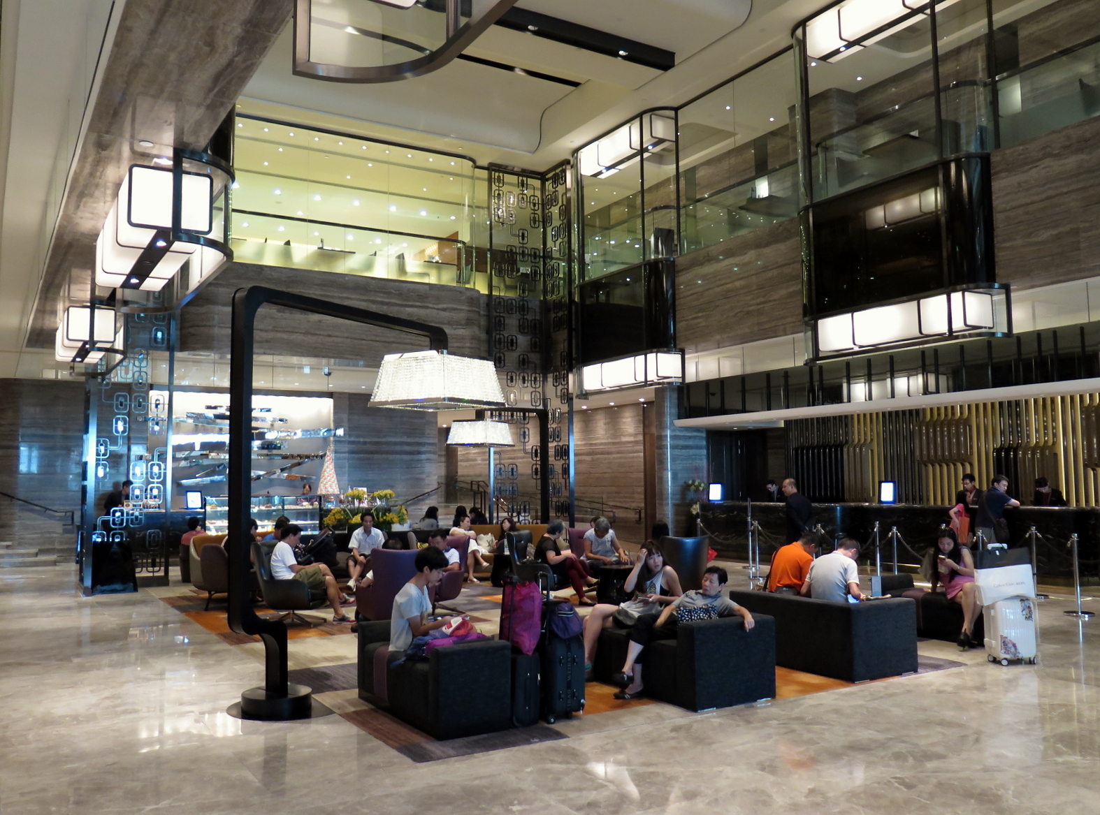 Royal Plaza Hotel Lobby after renovation